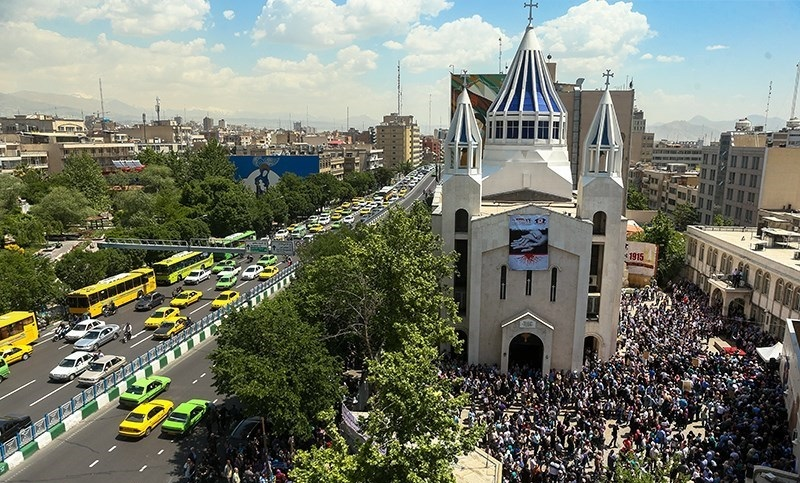 Armenian Genocide Remembrance Day, Saint Sarkis Cathedral, Tehran, Iran